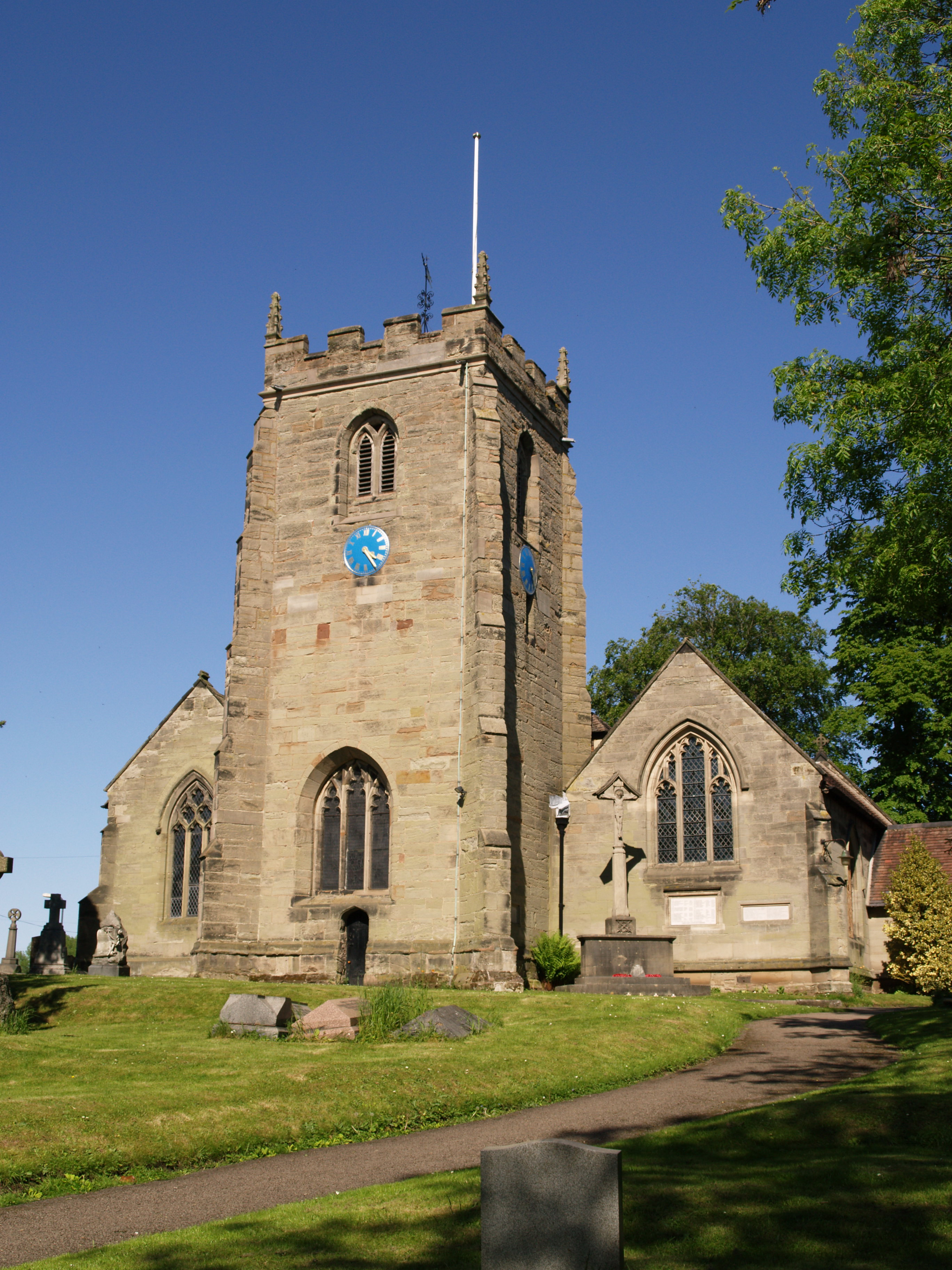 View of west end of St Mary Magdalene's Church, Lillington, Warwickshire.